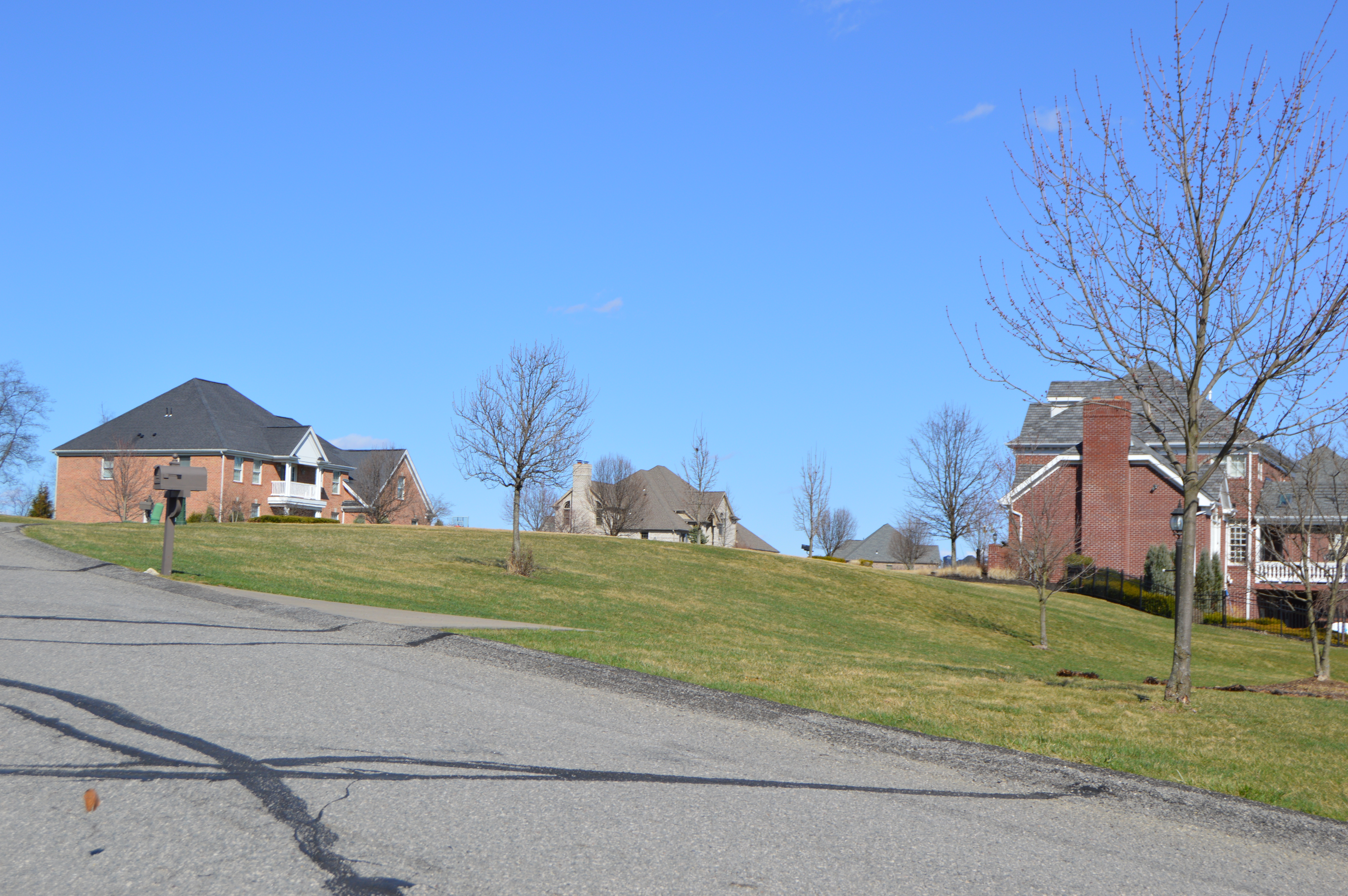 Houses on Charleston Square in Bell Acres, Pennsylvania, United States, a typical street of new McMansions.